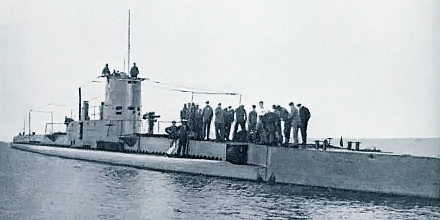 French sumbarine Fulton, of the Fulton class, after 1922-1923 refit.